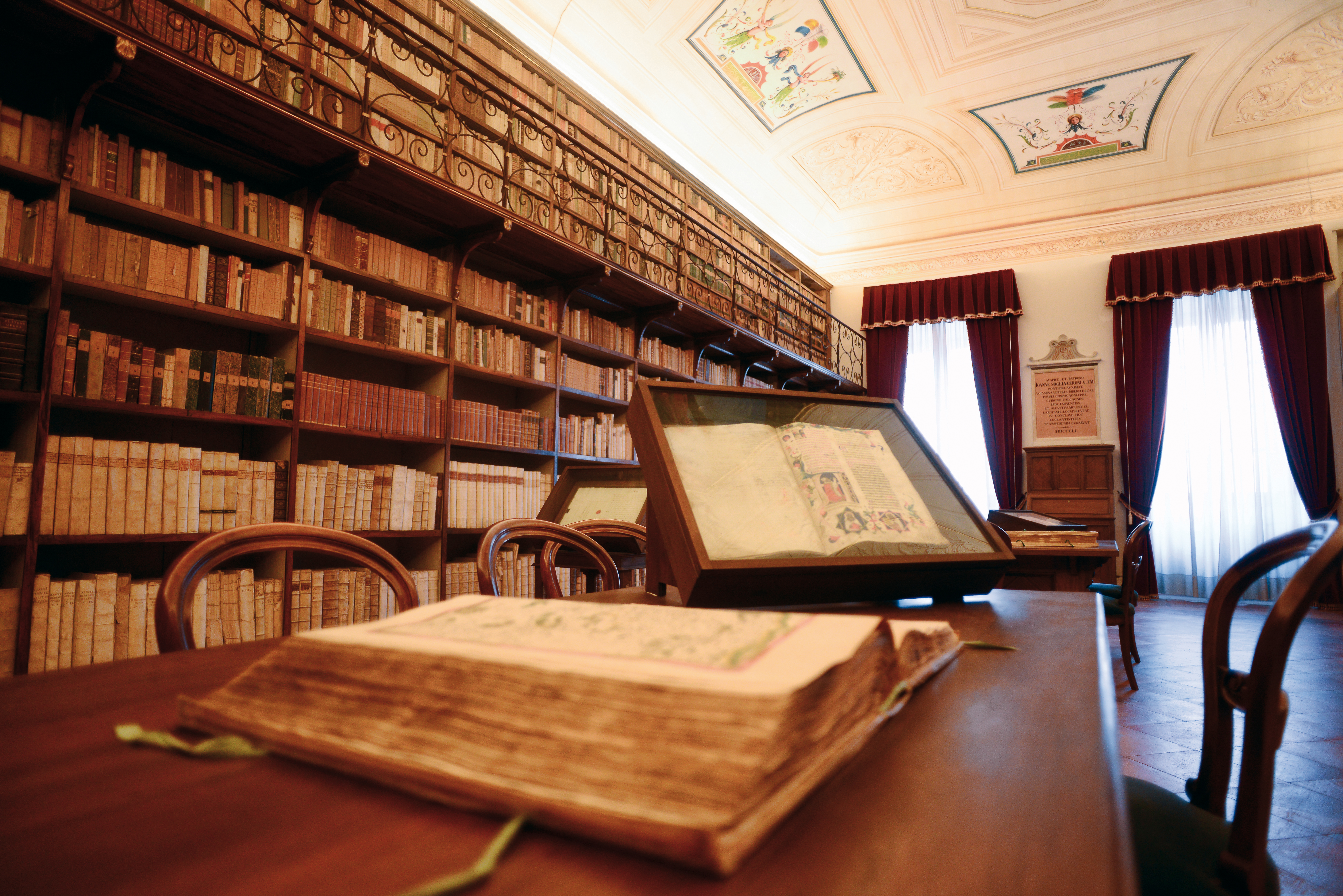 Library Palazzo Campana